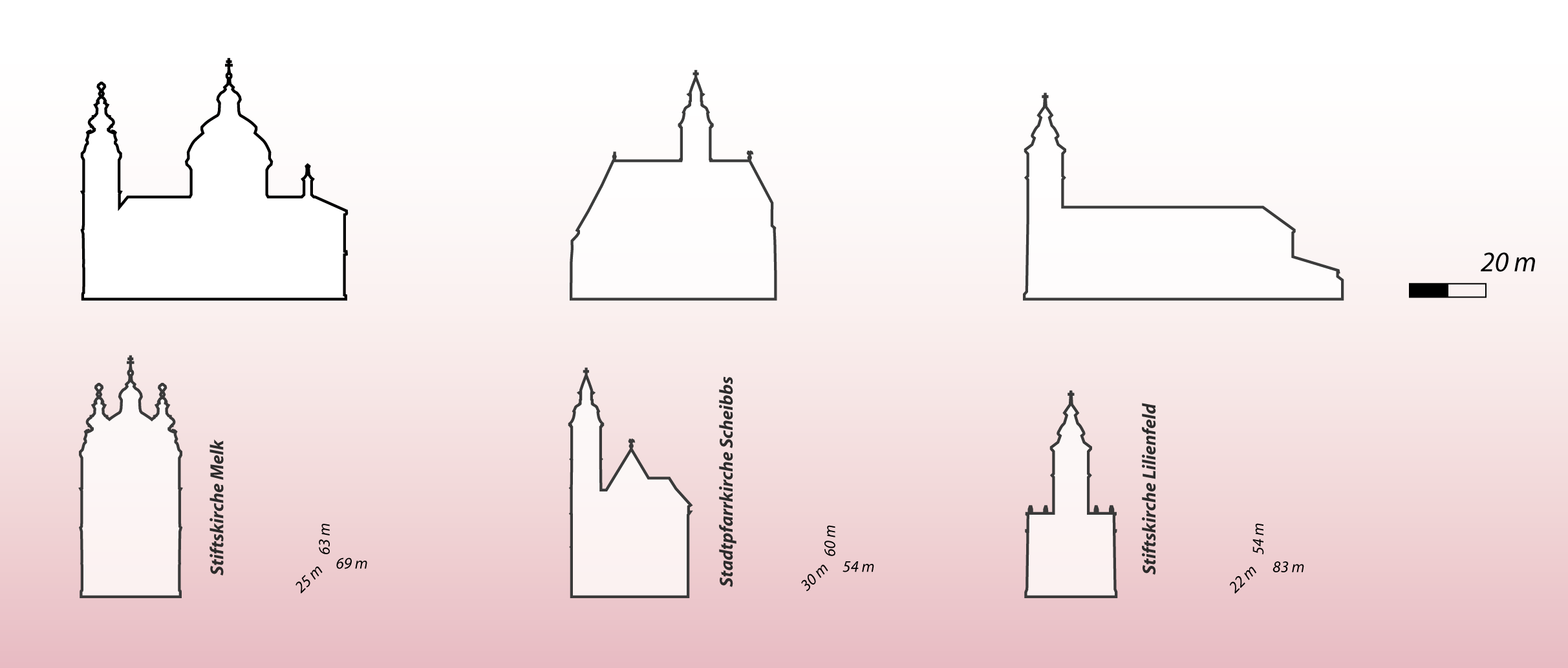 map of lower austrian churches